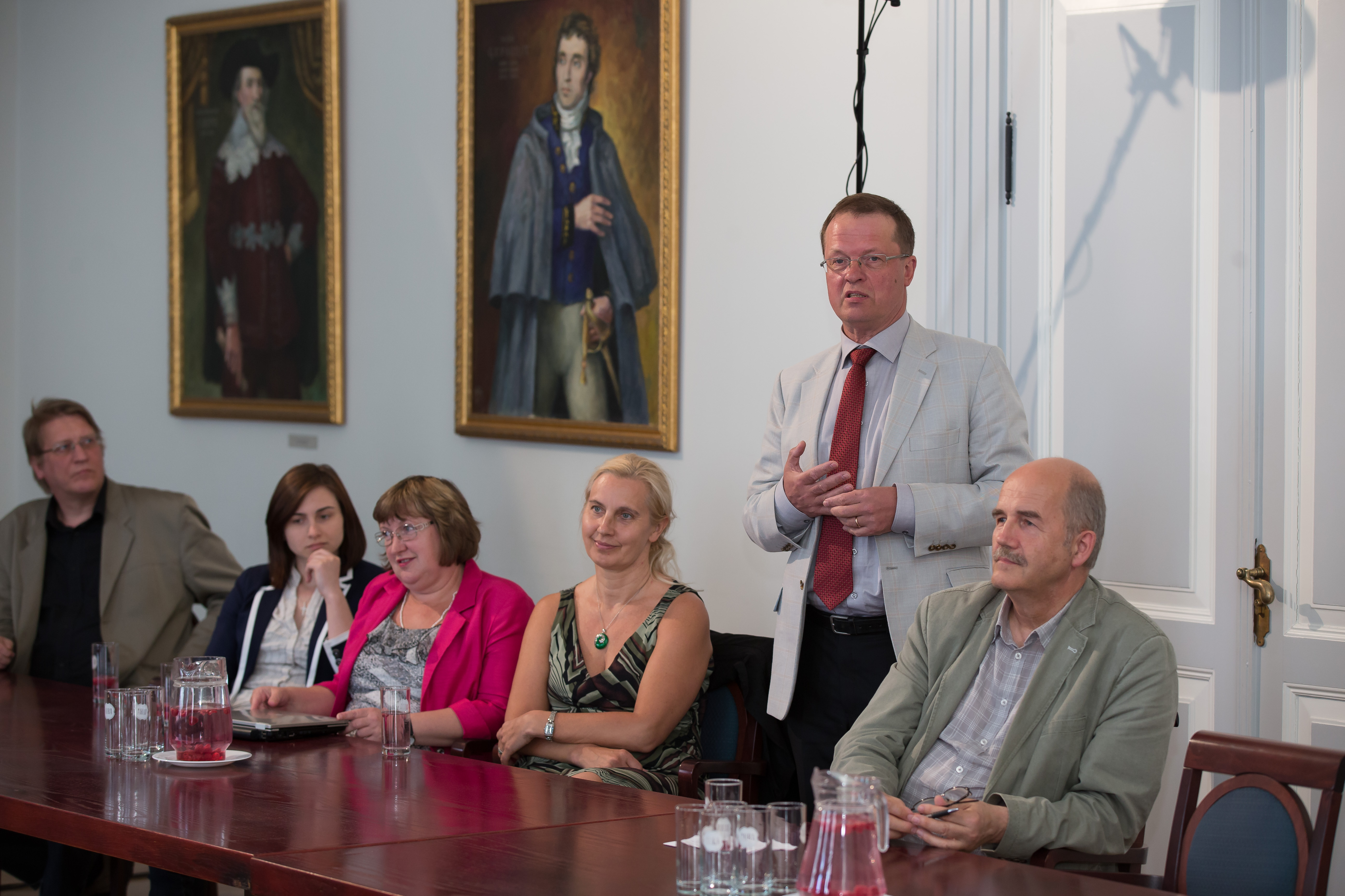 Council of the University of Tartu seminar "Risk management and developing of entrepreneurship inside the university". Toivo Maimets